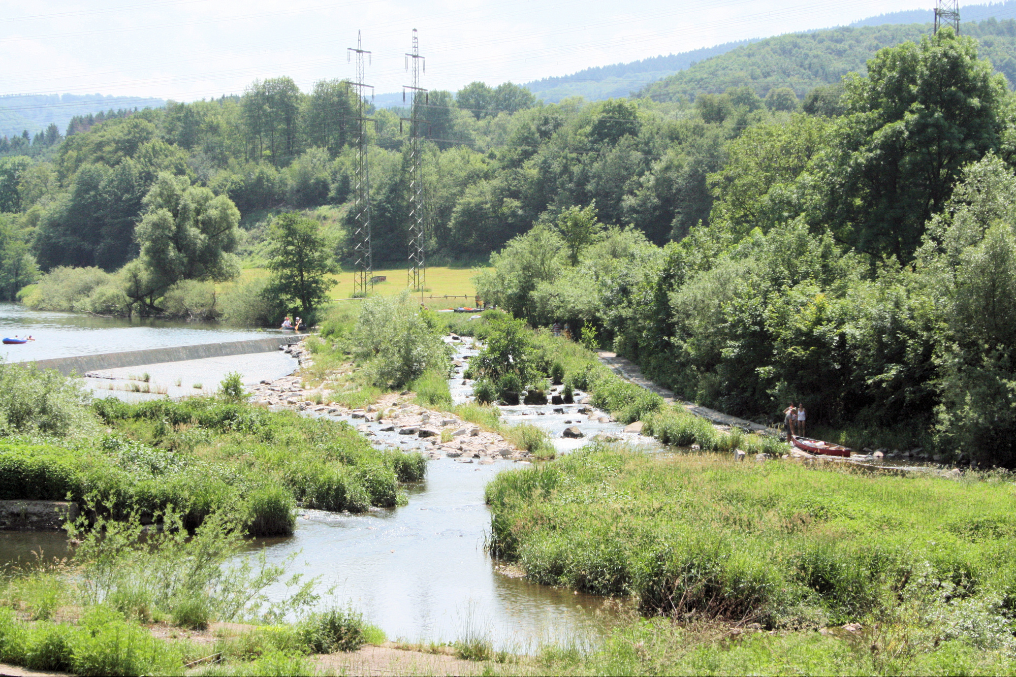 Valley of the river Sieg in Germany